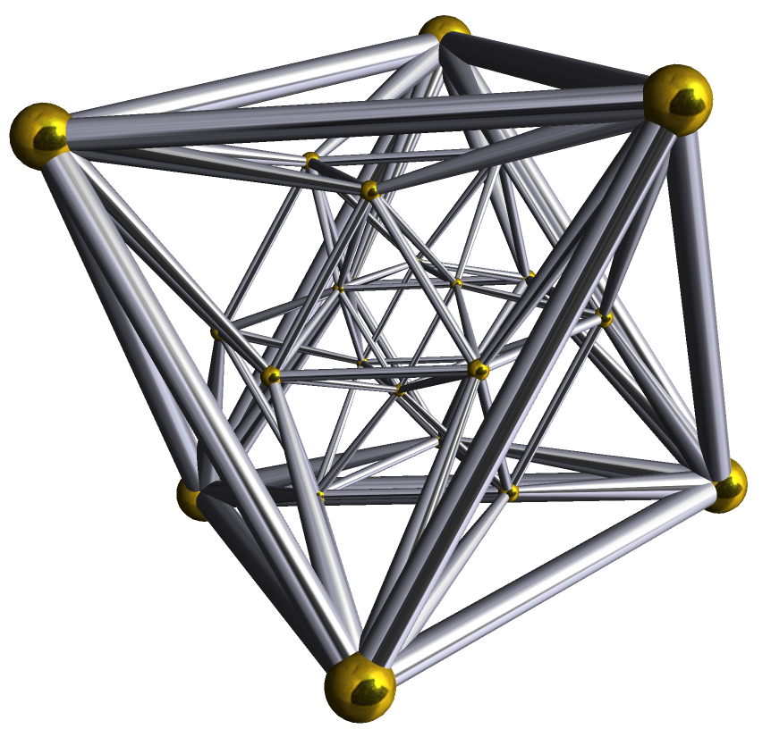 en:24-cell Schlegel diagram, wireframe The copyright holder of this file, Robert Webb, allows anyone to use it for any purpose, provided that the copyright holder is properly attributed. Redistribution, derivative work, commercial use, and all other use is permitted. Attribution: Attribution must be given to Robert Webb's Stella software as the creator of this image along with a link to the website: A complimentary copy of any book or poster using images from the Software would also be appreciated where feasible. This work is free and may be used by anyone for any purpose. If you wish to use this content, you do not need to request permission as long as you follow any licensing requirements mentioned on this page.